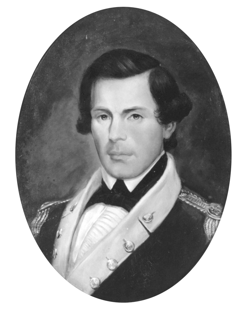 Samuel Nicholas, first Commandant of the United States Marine Corps, 28 Nov 1775 - Aug 1783.